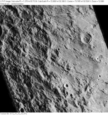 This area of the Moon is thickly blanketed with ejecta from nearby Mare Orientale making large craters difficult to recognize unless the Sun is very low. Lagrange is in the center of this view with its IAU position and diameter represented by the large circle. The actual depression seems considerably smaller and somewhat displaced to the southeast. On the west, the second largest circle represents 130-km diameter Lagrange R, which partially overlays Lagrange. In the lower right corner, the IAU circle marks the rim of 134-km Piazzi.